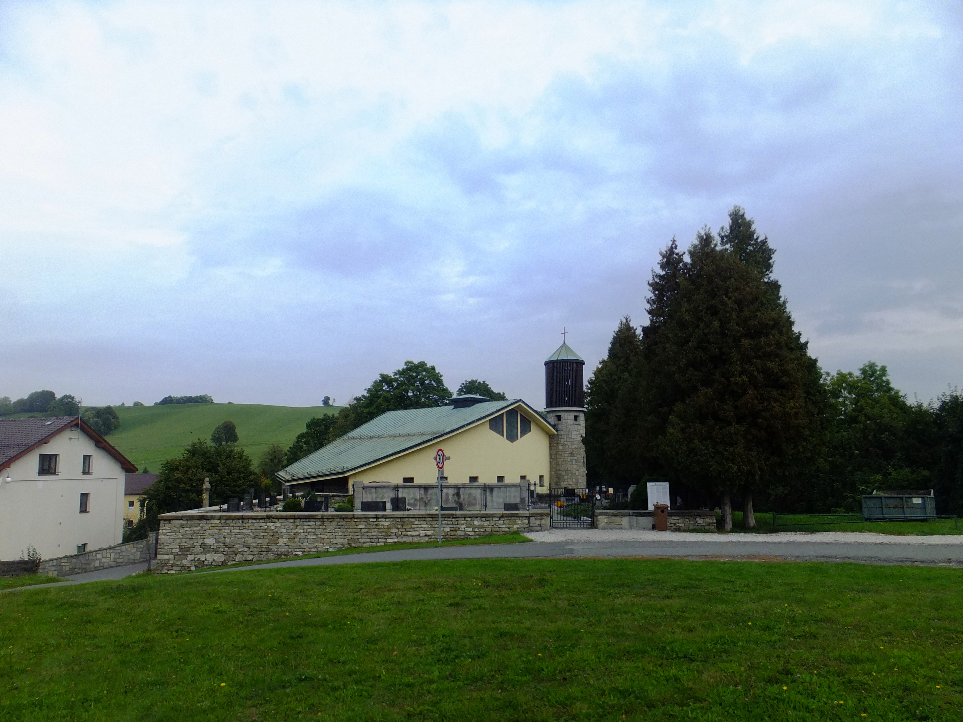 Saint Nicholas Church in Tichá (Nový Jičín District), built on the place of the older wooden one, destroyed by the fire after the lightning strike in the 1964 year